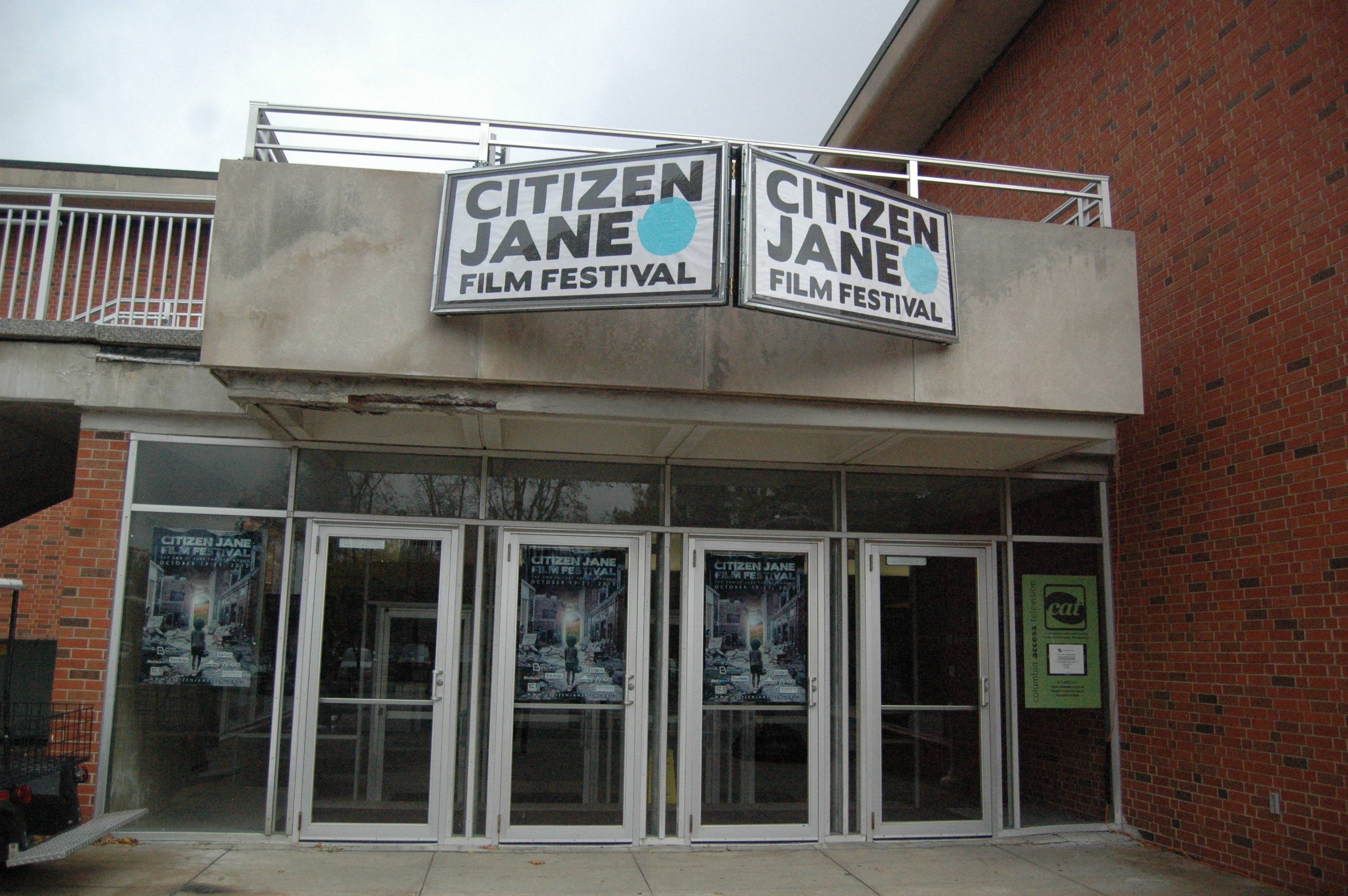 Citizen Jane Film Festival at Stephens College in Columbia, Missouri. It features independent films by female filmmakers. (Kylie Hennagin/KOMU)